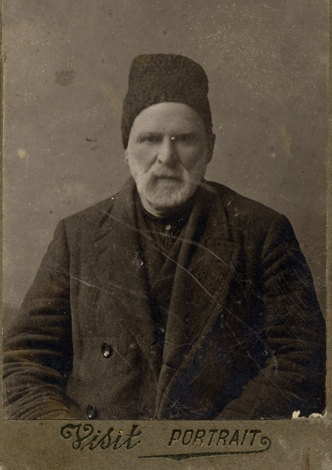 Kaikacishvili Gulo-Aga (Katamadze)